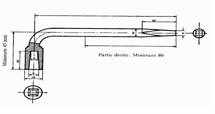 Specification of Berne key